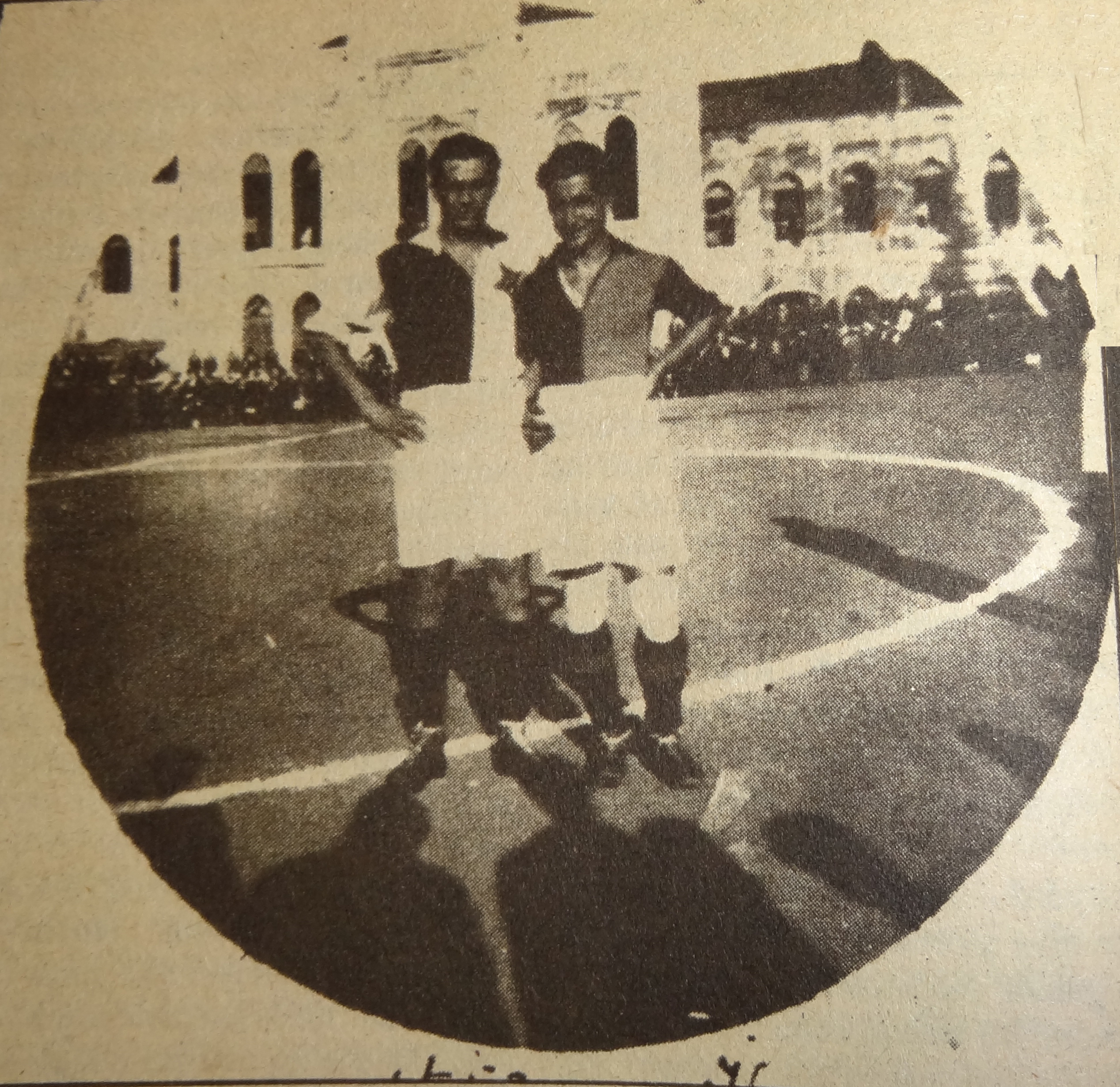 Galatasaray-Slavia Prague match in 1923. Nihat Bekdik, Galatasaray SK Team Captain and Slavia Captain.